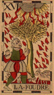 The Lightning, a tarot card from the Belgian Tarot.